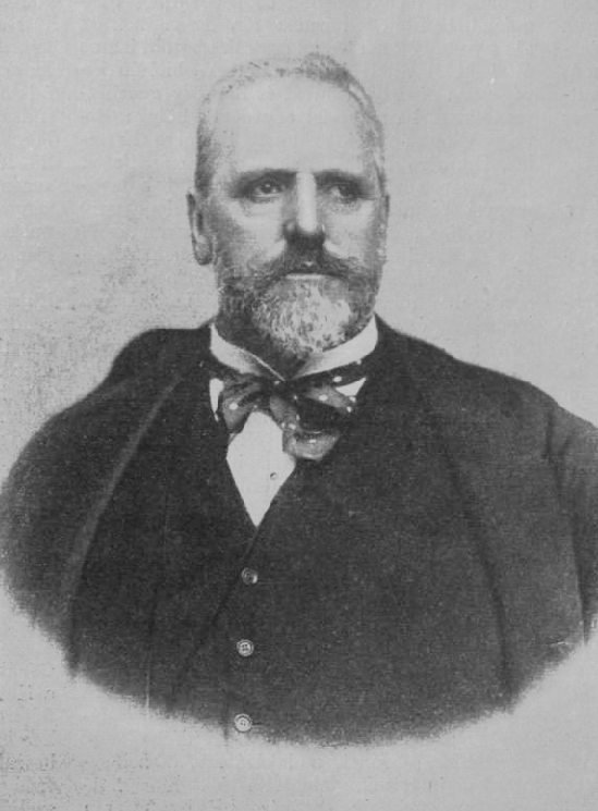 Portrait of Pál Bezerédj